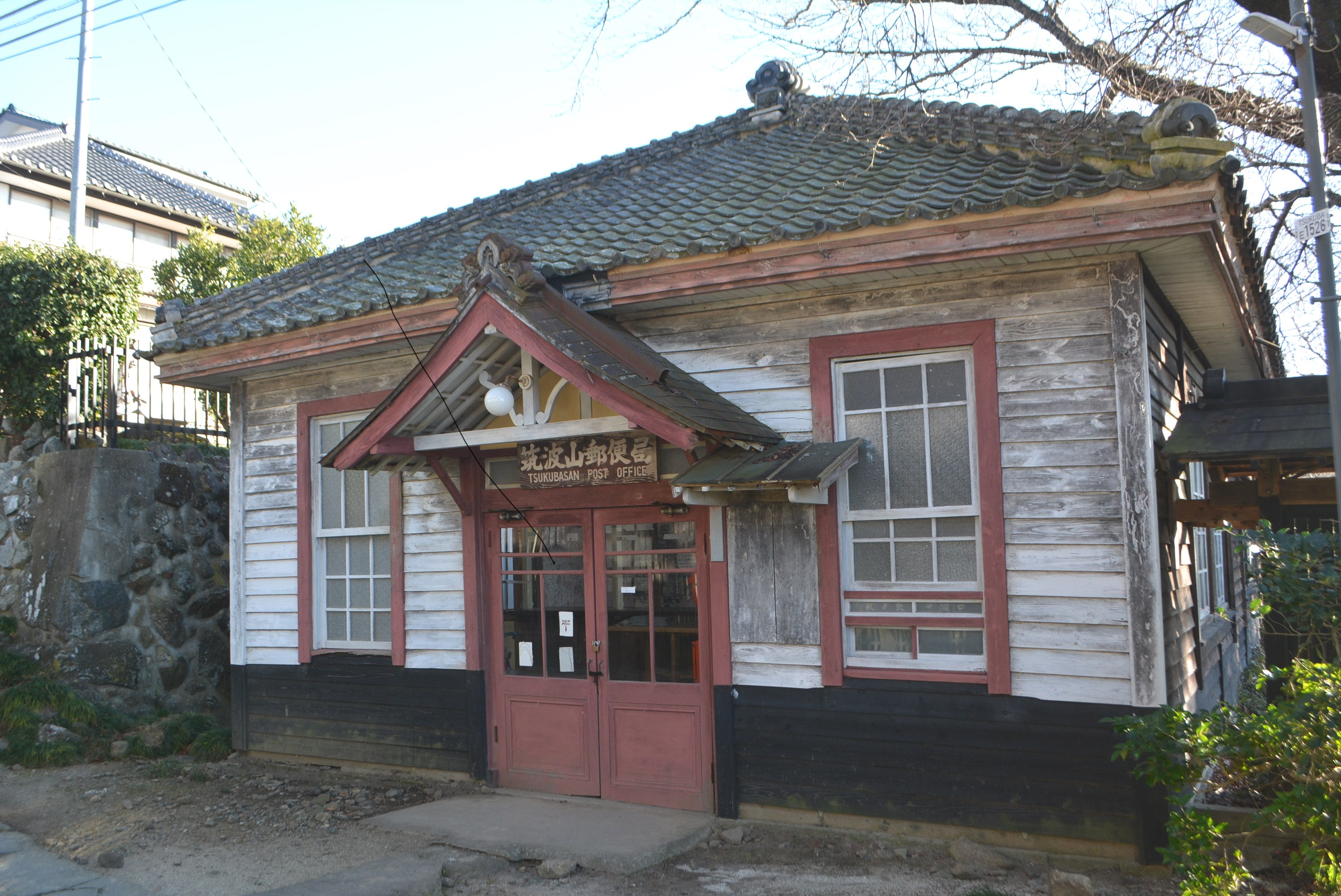 Old Tsukuba mountain post office,Tsukuba city,Japan